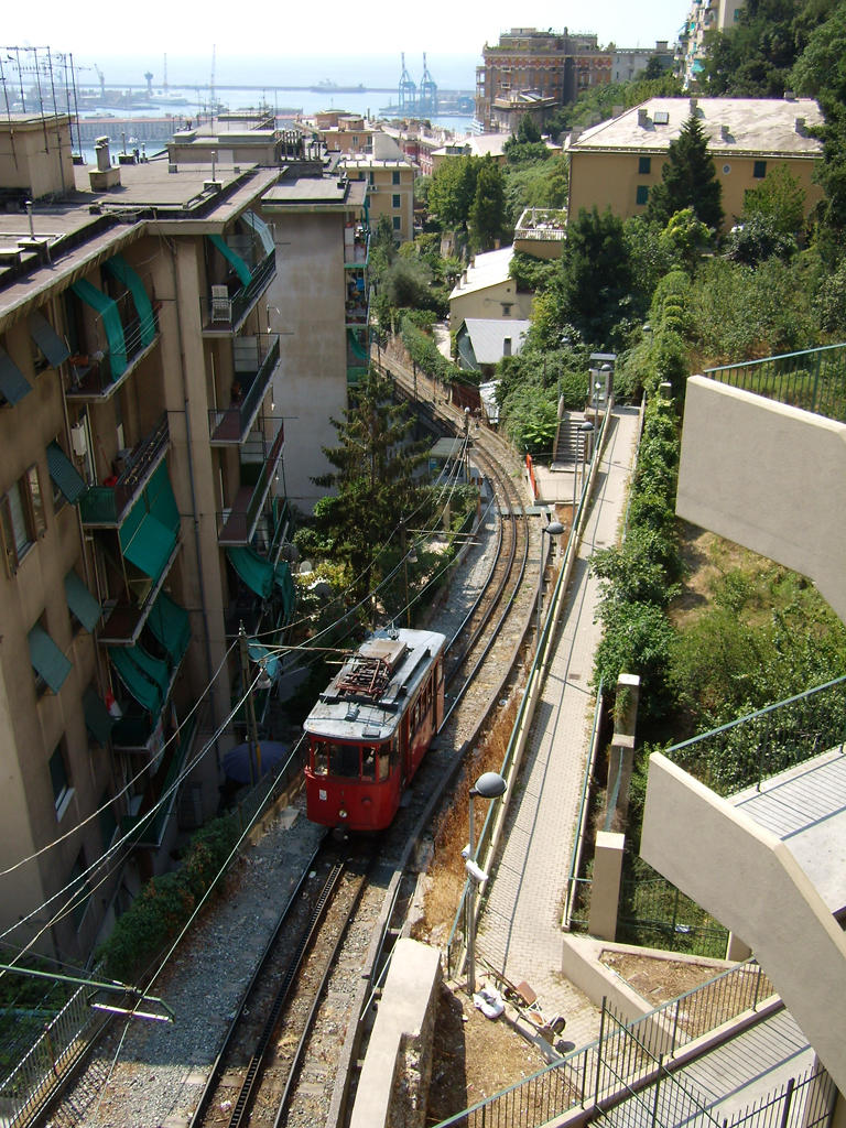 View of the Principe-Granarolo railway from the overpass in Via Bari, Genoa. Car 1 is descending towards Principe.